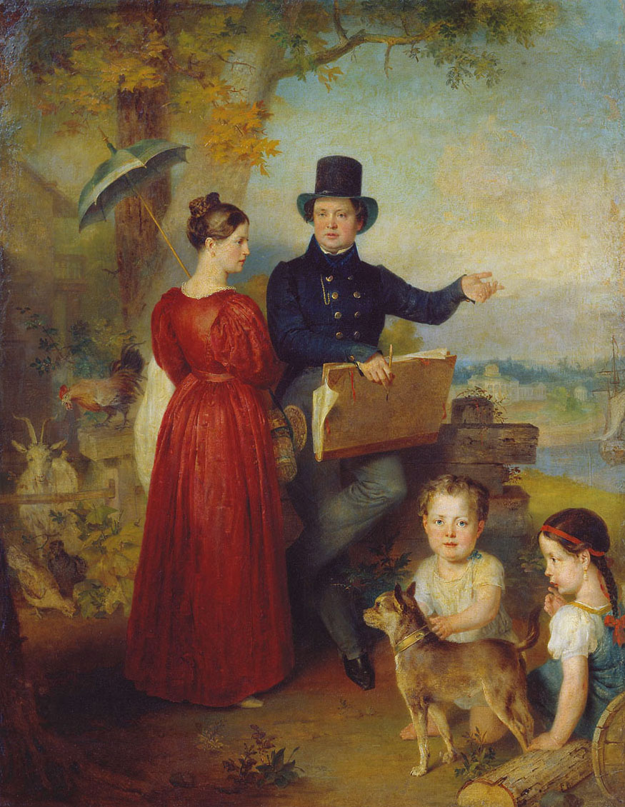 Golike Vasily. Self-Portrait with Wife and Kids (1836)